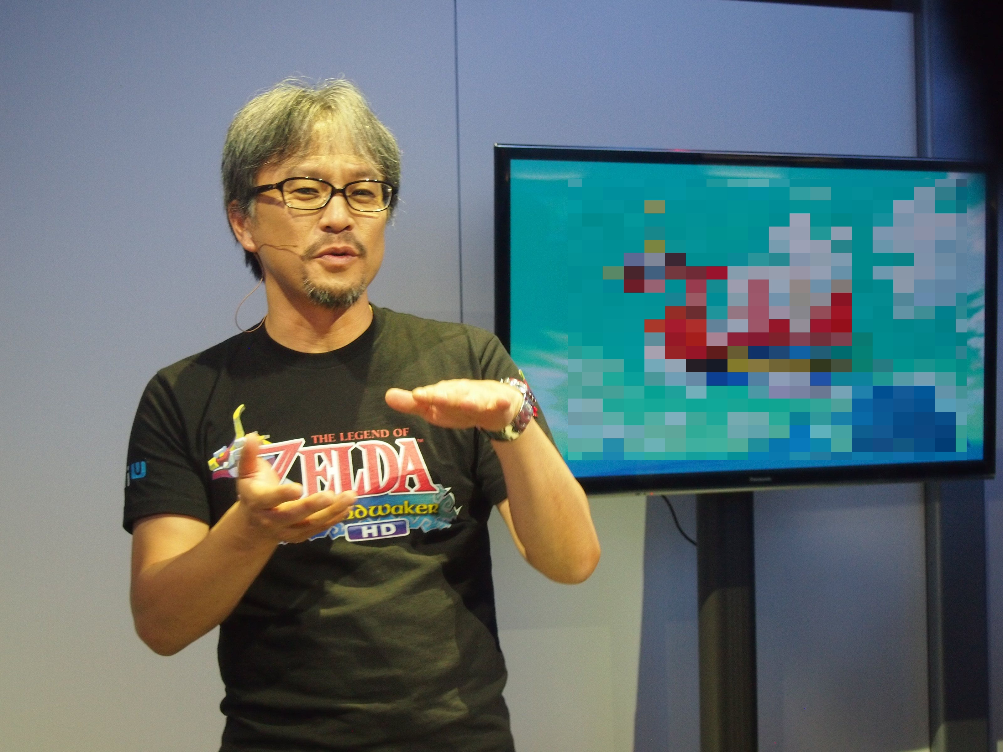 Eiji Aonuma, producer of the The Legend of Zelda series, at E3 2013.